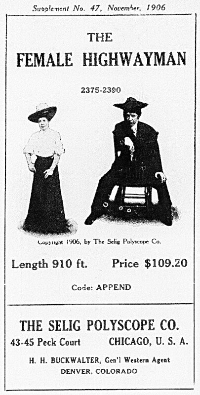 Page including price advertisement for the 1906 film "The Female Highwayman" by Selig Polyscope Company (Chicago), Film Supplement, number 47, November 1906, p. 1 of 3 pdf; Edison Collection (I-098), Rutgers Libraries, The State University of New Jersey (Piscataway, New Jersey); includes two images of the female bandit (likely actress Margaret Leslie); one image of her standing in women’s attire, another of her sitting in a chair dressed in a man's suit and holding a pistol